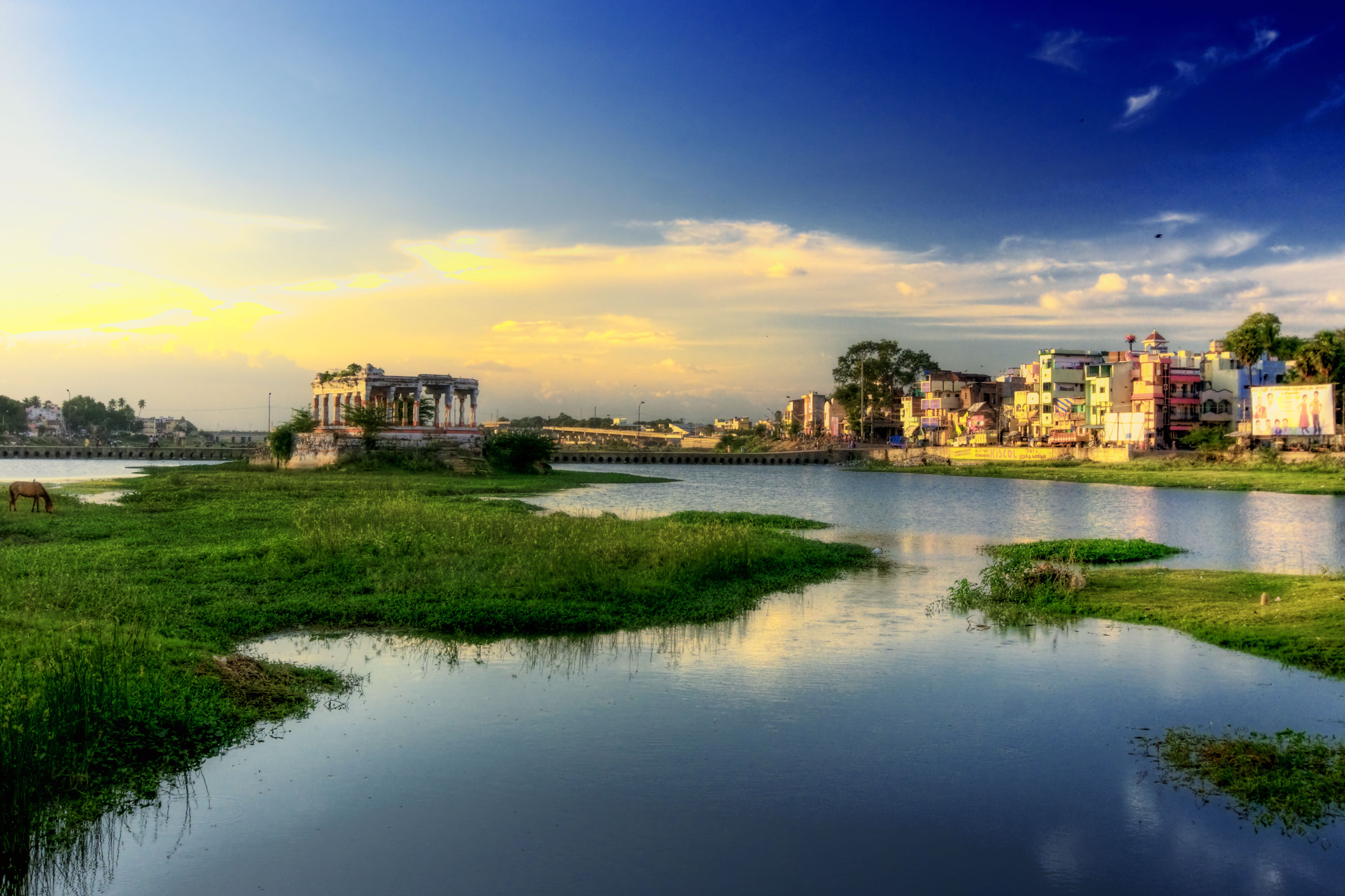 Vaigai is a river in Madurai, Tamil Nadu state of southern India. It originates in the Periyar Plateau of the Western Ghats range, and flows northeast through the Kambam Valley, which lies between the Palni Hills to the north and the Varushanad Hills to the south. The Vattaparai Falls are located on this river. As it rounds the eastern corner of the Varushanad Hills, the river turns southeast, running through the region of Pandya Nadu. Madurai, the largest city in the Pandya Nadu region and its ancient capital, lies on the Vaigai. The river empties into the Palk Strait in Ramanathapuram District. The Vaigai is 258 kilometres (160 mi) long, with a drainage basin 7,031 square kilometres (2,715 sq mi) large.